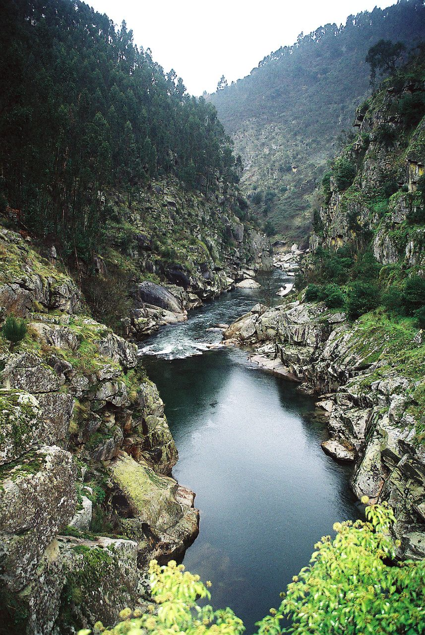 See where this picture was taken. [?]